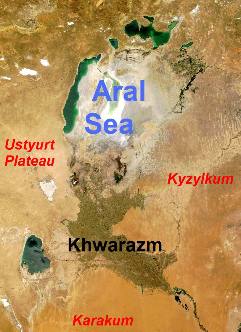 Satellite image (from 2009) showing the Khwarazm oasis south of the Aral Sea